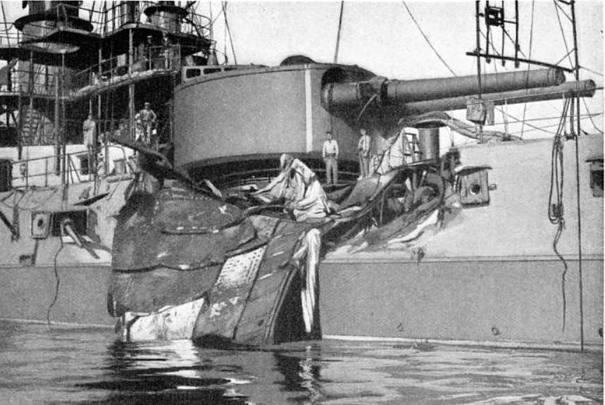 Armor plate from the French Battleship Liberté weighing 10 tons lodged in the side of the battleship République which was moored 1,000 feet away when the Liberte exploded. This shows the République's forward 305mm/40 Modèle 1893 guns.